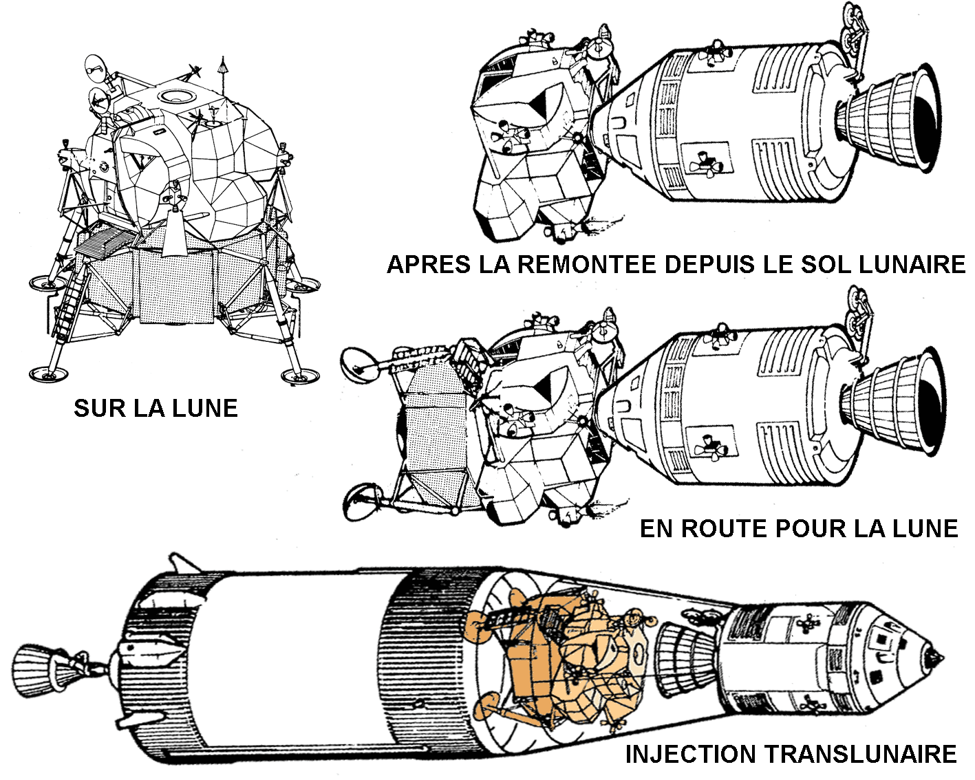 Configuration of the lunar module during an Apollo mission